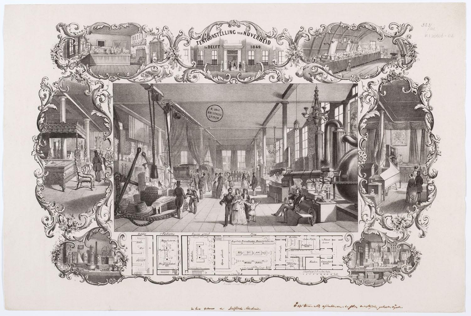 Poster van Tentoonstelling van Nijverheid te Delft 1849